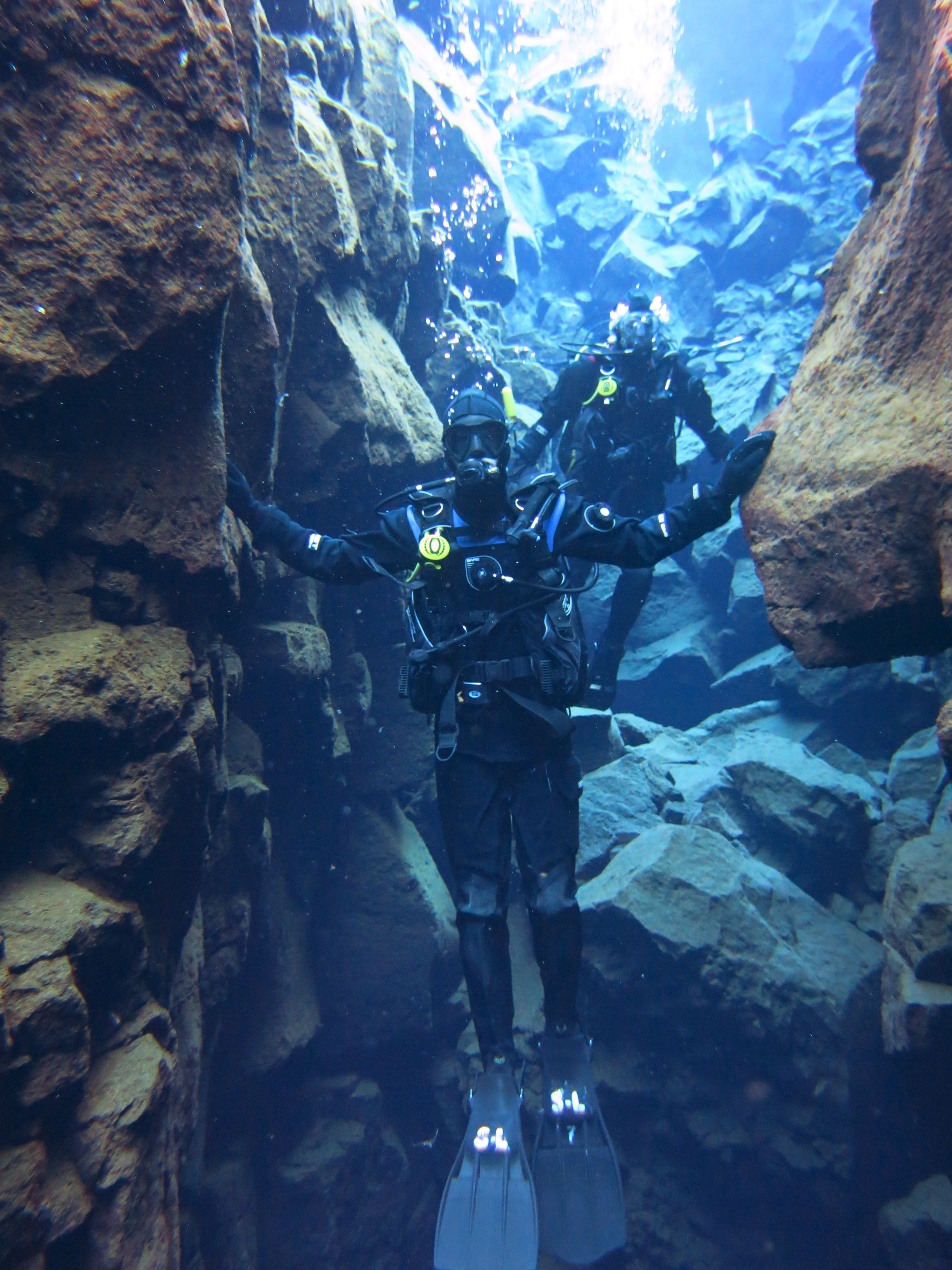 Tectonic plate divide, Silfra Iceland